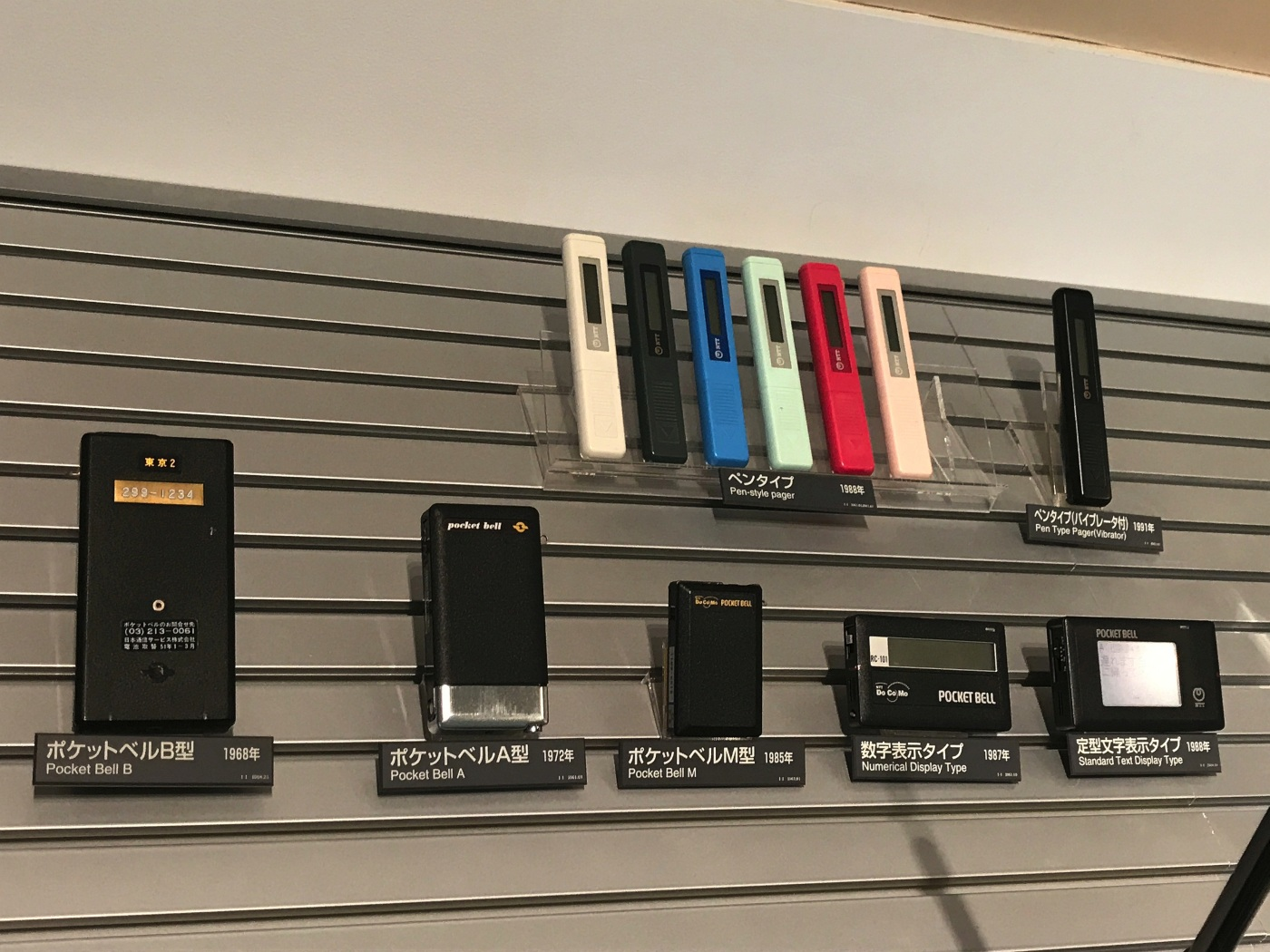 The pagers by Nippon Telegraph and Telephone Public Corporation, NTT, NTT DoCoMo. (NTT Technical history museum Collection)